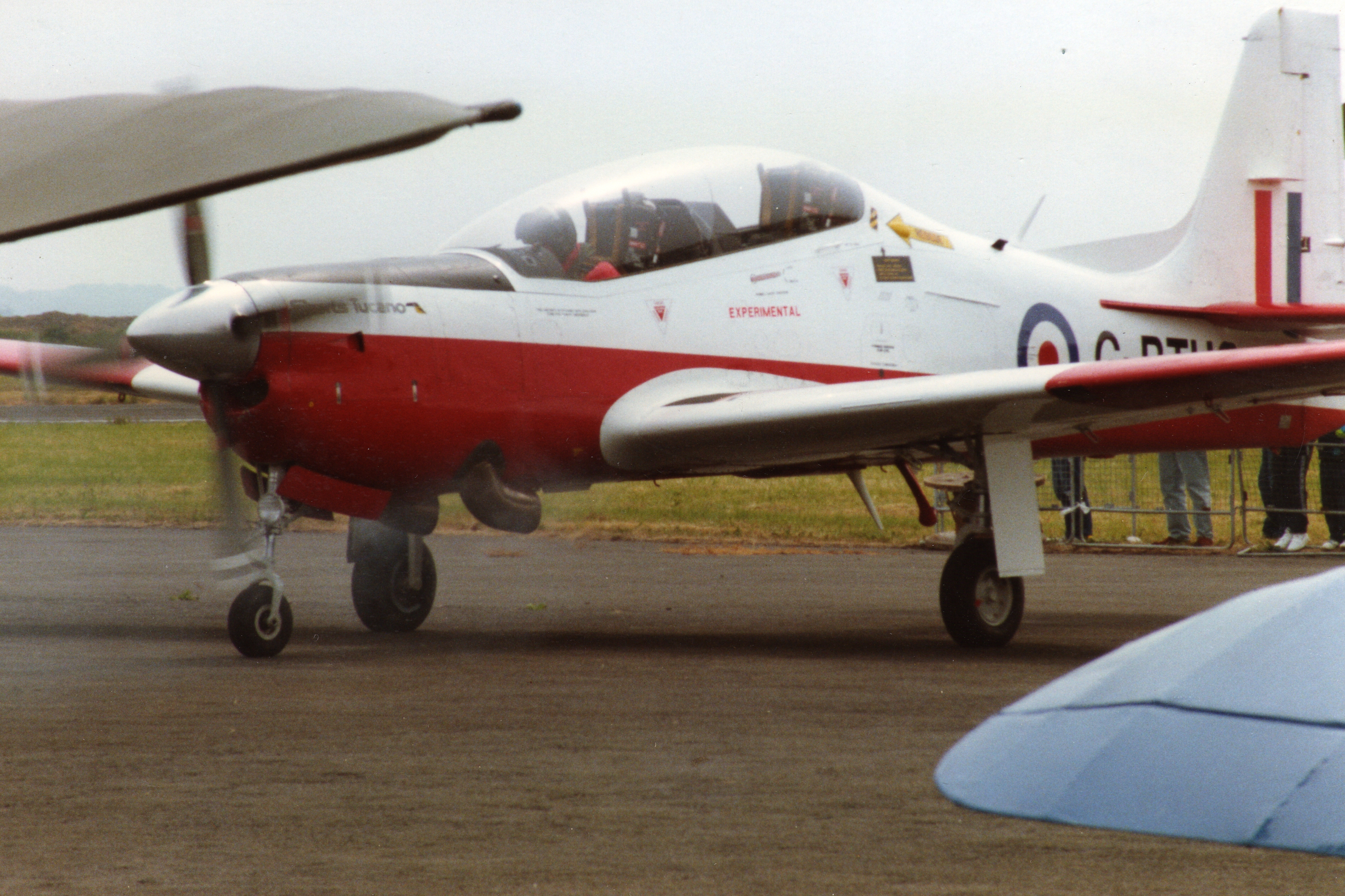 Shorts Tucano aircraft, Newtownards Air Show, Newtownards Airfield, Newtownards, County Down, Northern Ireland, June 1991